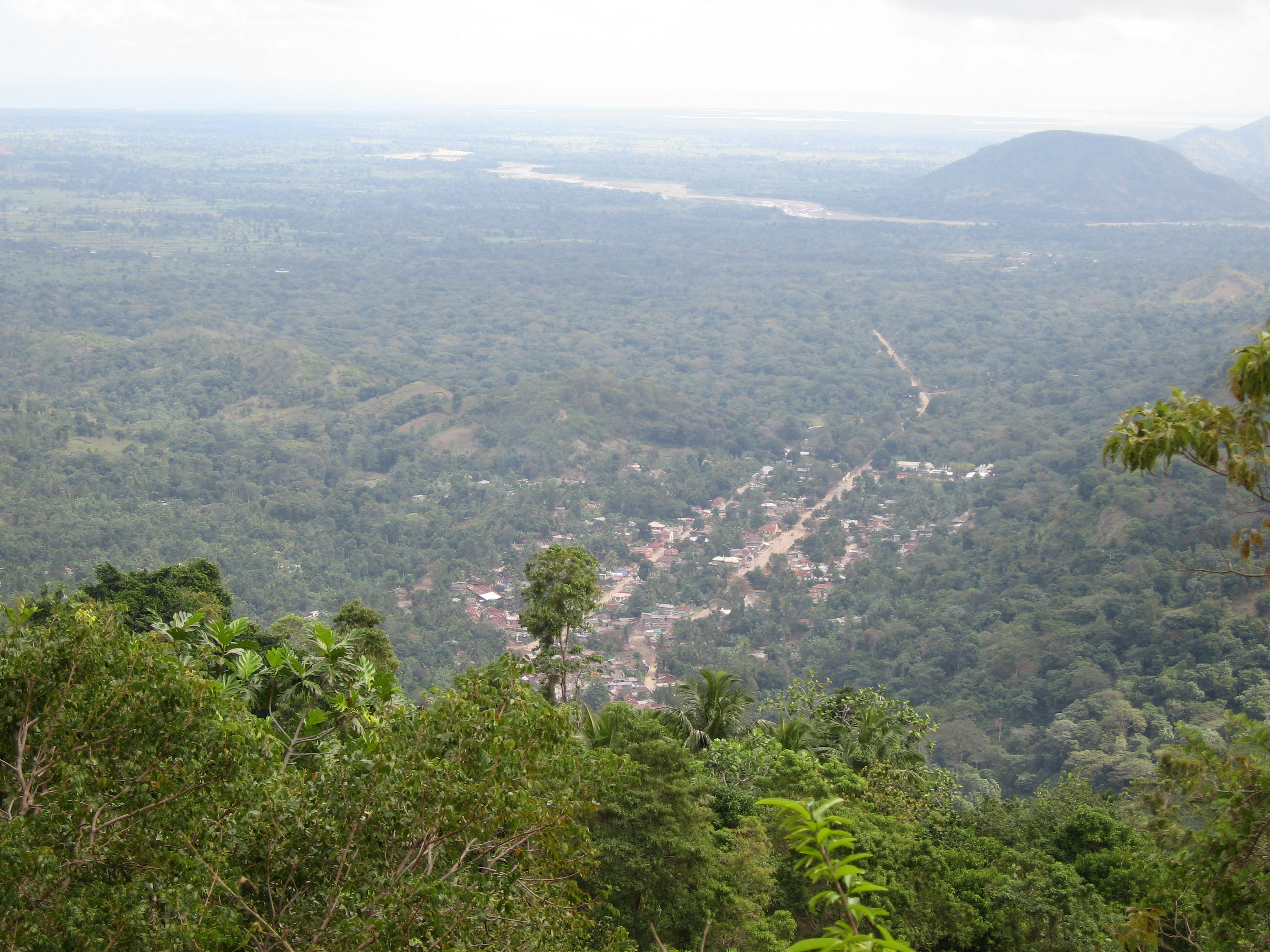 Image of the town of Milot, Haiti taken from the path up to the Citadel.